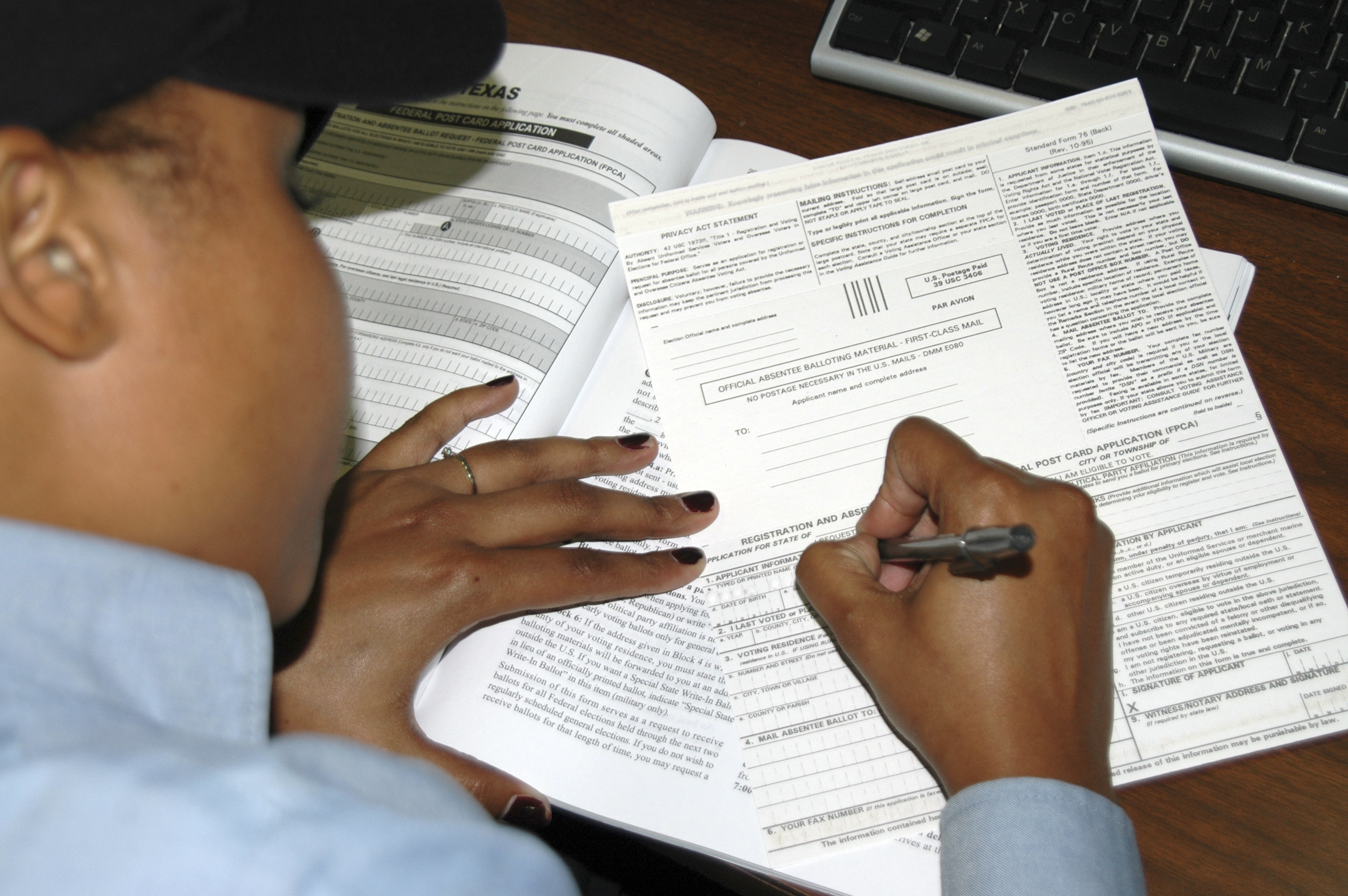 NORFOLK (August 22, 2008) A Sailor aboard the multi-purpose amphibious assault ship USS Bataan (LHD 5) prepares her absentee ballot request to be sent to her state of residence to be eligible to vote in the upcoming election. (U.S. Navy photo by Mass Communication Specialist 2nd Class Jeremy L. Grisham/Released)